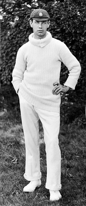 Warwickshire cricketer Ernest James (Tiger) Smith circa May 1905.